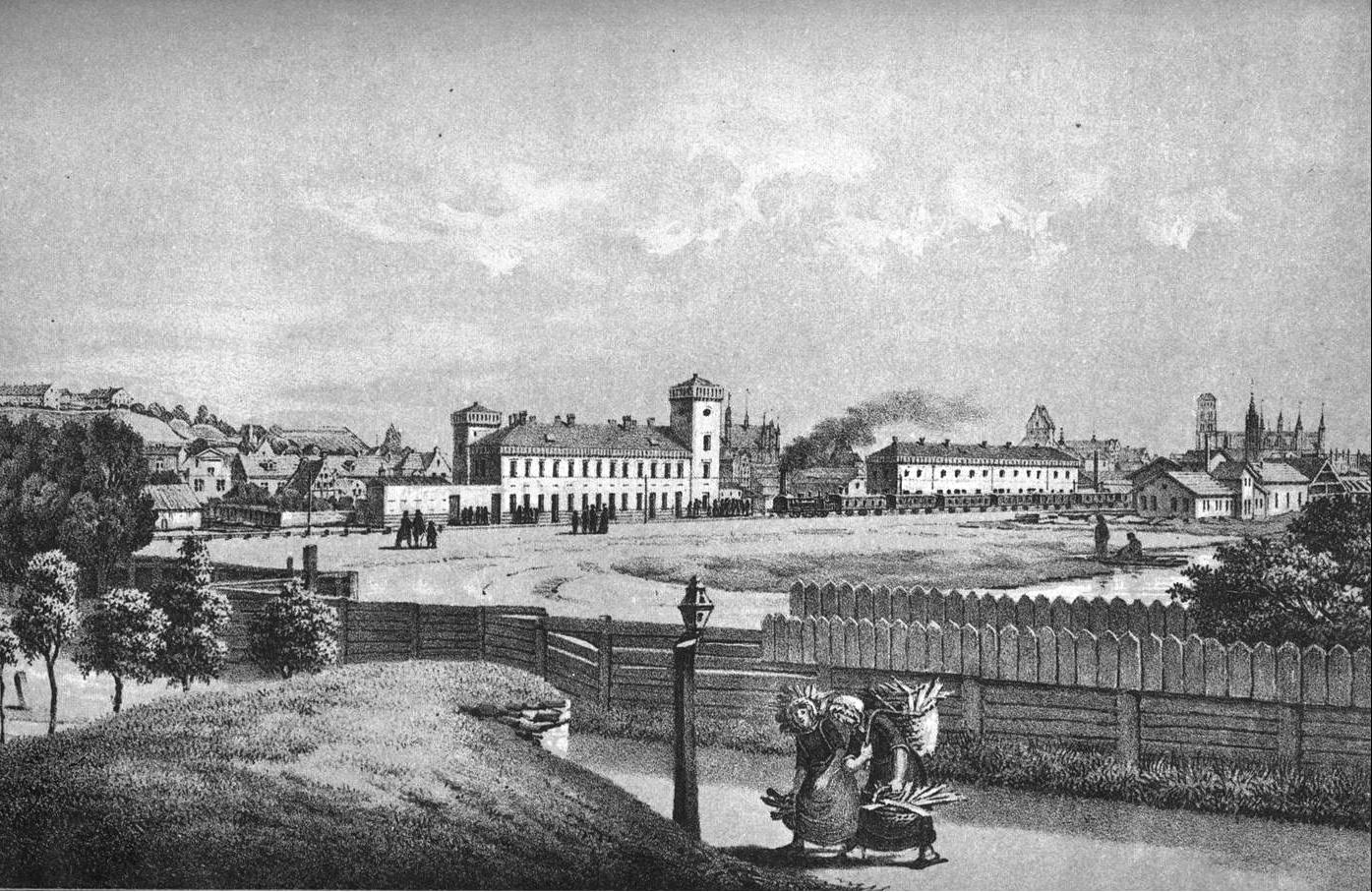 First Railway Station in Gdańsk. ca. 1852